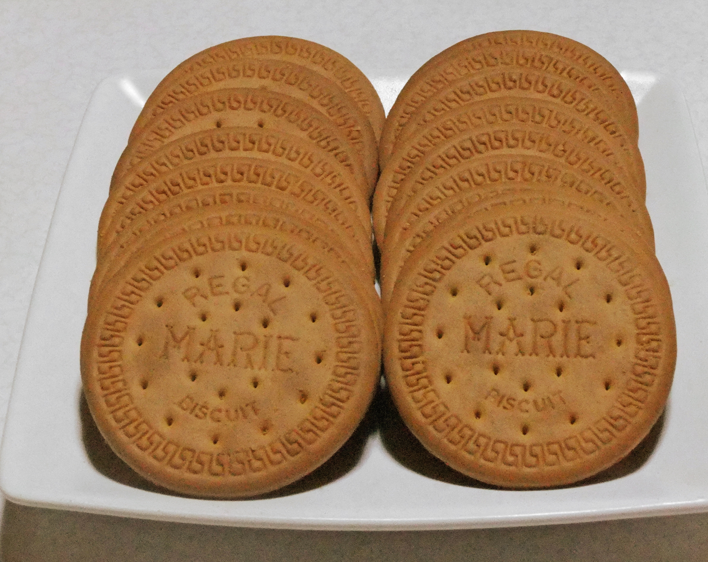 Marie Regal biscuit, Indonesia